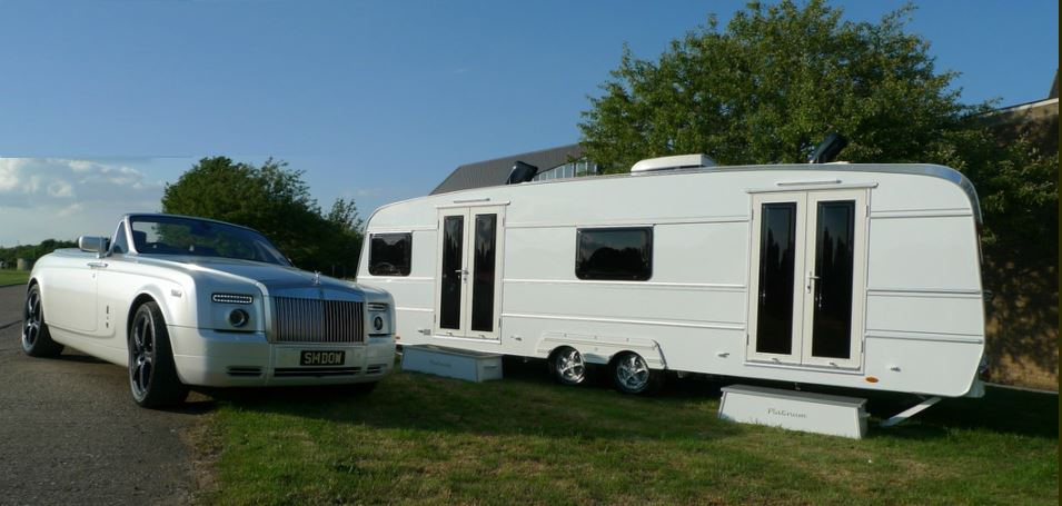 Roma Caravan 2012